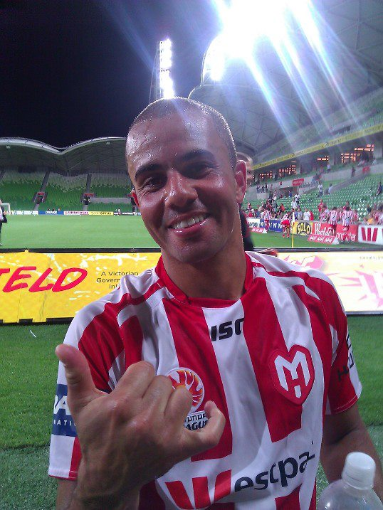 Photo of Fred at the end of a Melbourne Heart game -Season 11/12